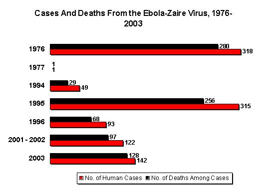 Original Sources: 'Ebola Hemorrhagic Fever Table Showing Known Cases and Outbreaks, in Chronological Order', Centers for Disease Control and Prevention, en:18 October en:2002. 'Republic of Congo: Ebola Epidemic; Emergency Appeal no. 07/03; Final Report', ReliefWeb In general all information presented in these pages and all items available for download are for public use. However, you may encounter some pages that require a login password and id. If this is the case you may assume that information presented and items available for download therein are for your authorized access only and not for redistribution by you unless you are otherwise informed. - Radical_edward at the English Wikipedia, the copyright holder of this work, hereby publishes it under the following license: Attribution: Radical_edward at the English Wikipedia